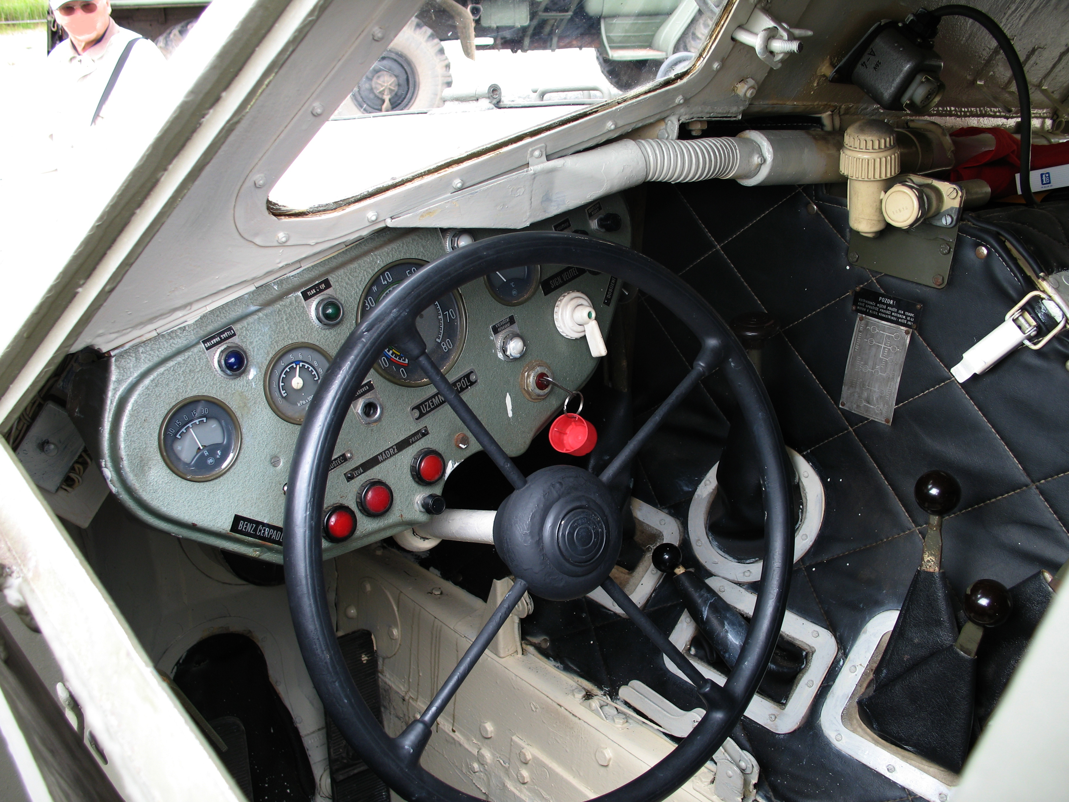 Restored interior of a Czechoslovakian M53/59 Praga twin anti-aircraft gun, shot at Flugplatzfest 2009 at Alkersleben airfield, Germany.